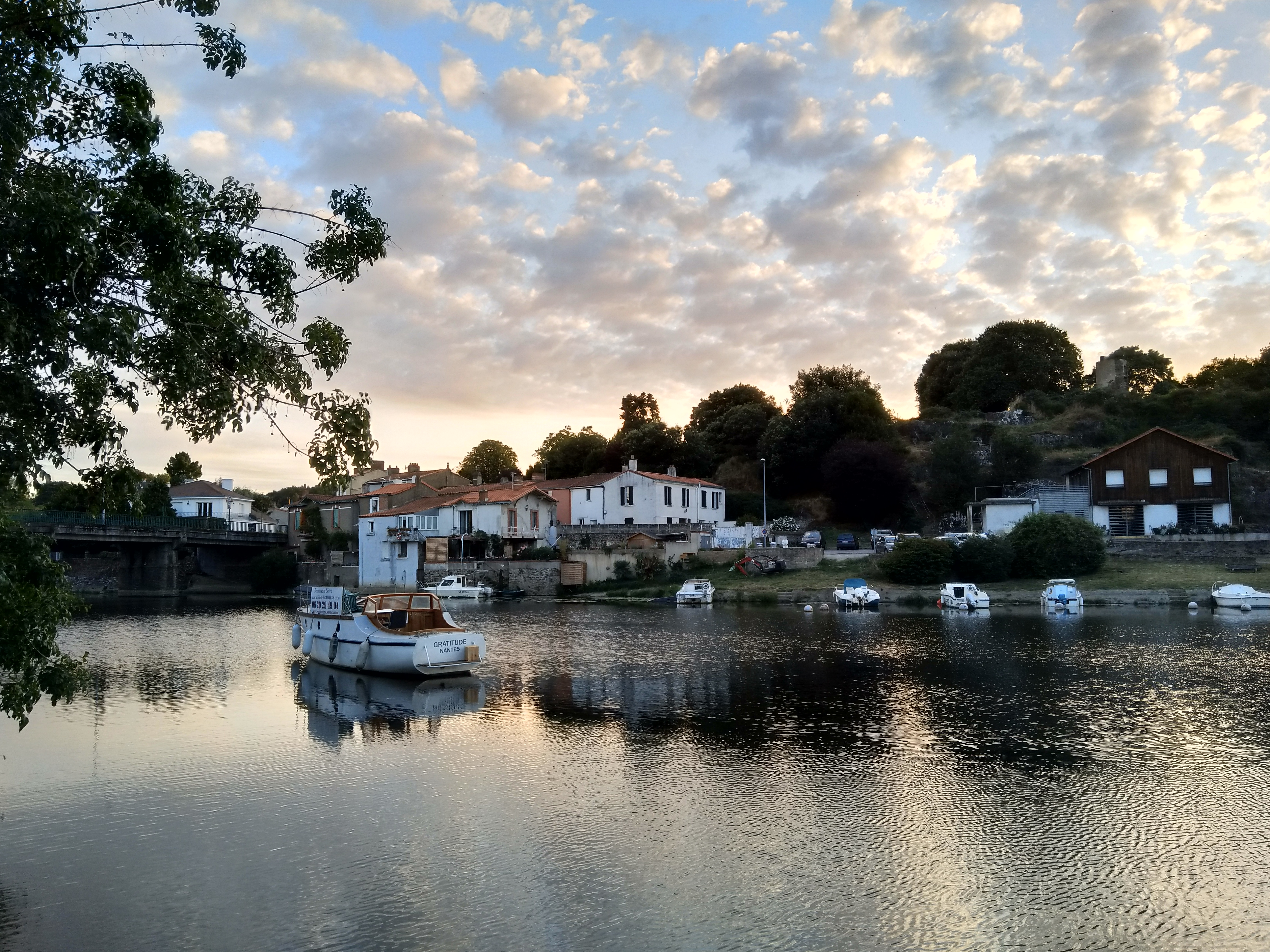 A scene along the Sèvre nantaise river in Vertou (Loire-Atlantique, France)